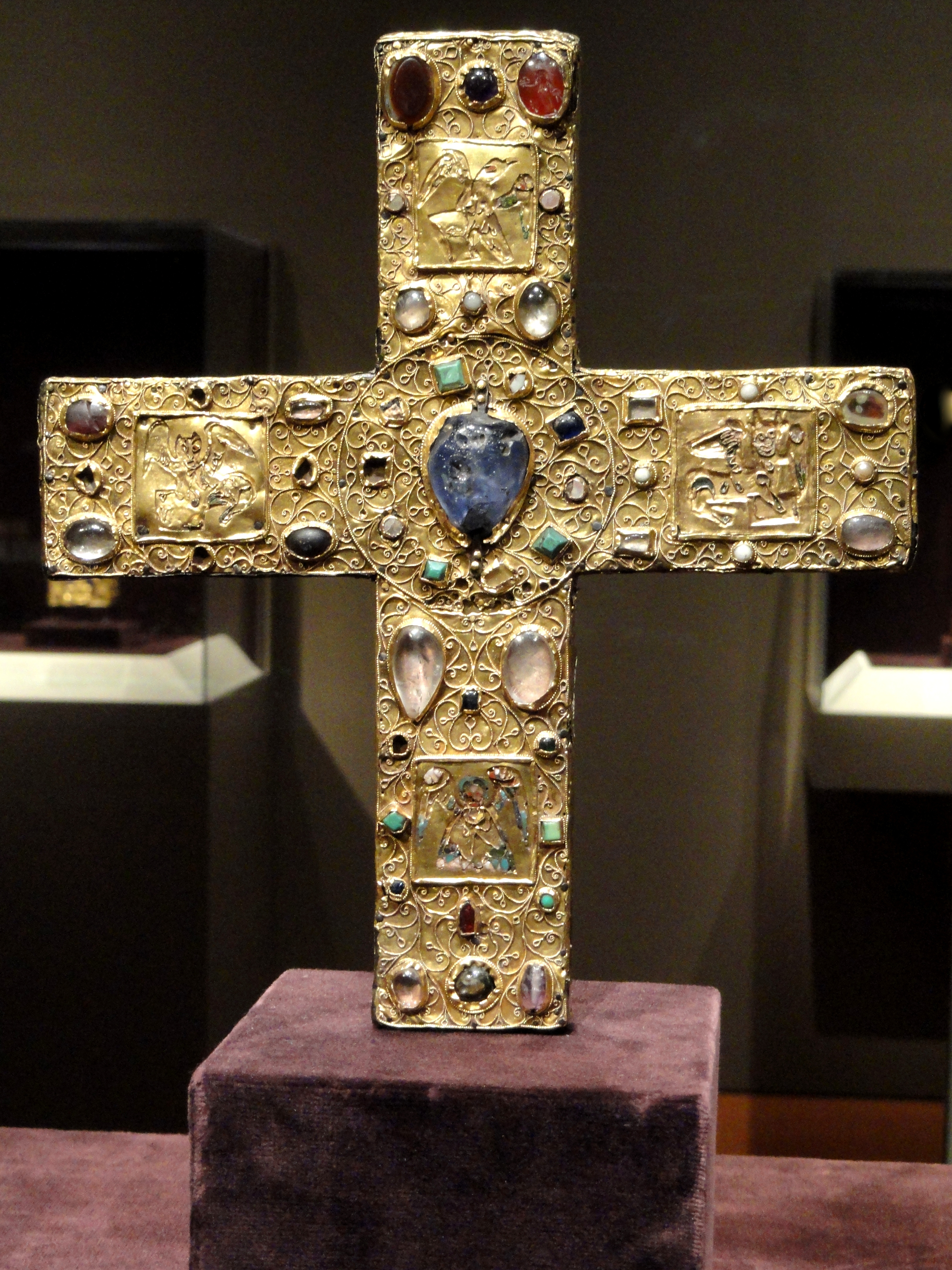 Exhibit in the Cleveland Museum of Art, Cleveland, Ohio, USA. This artwork is old enough so that it is in the public domain.